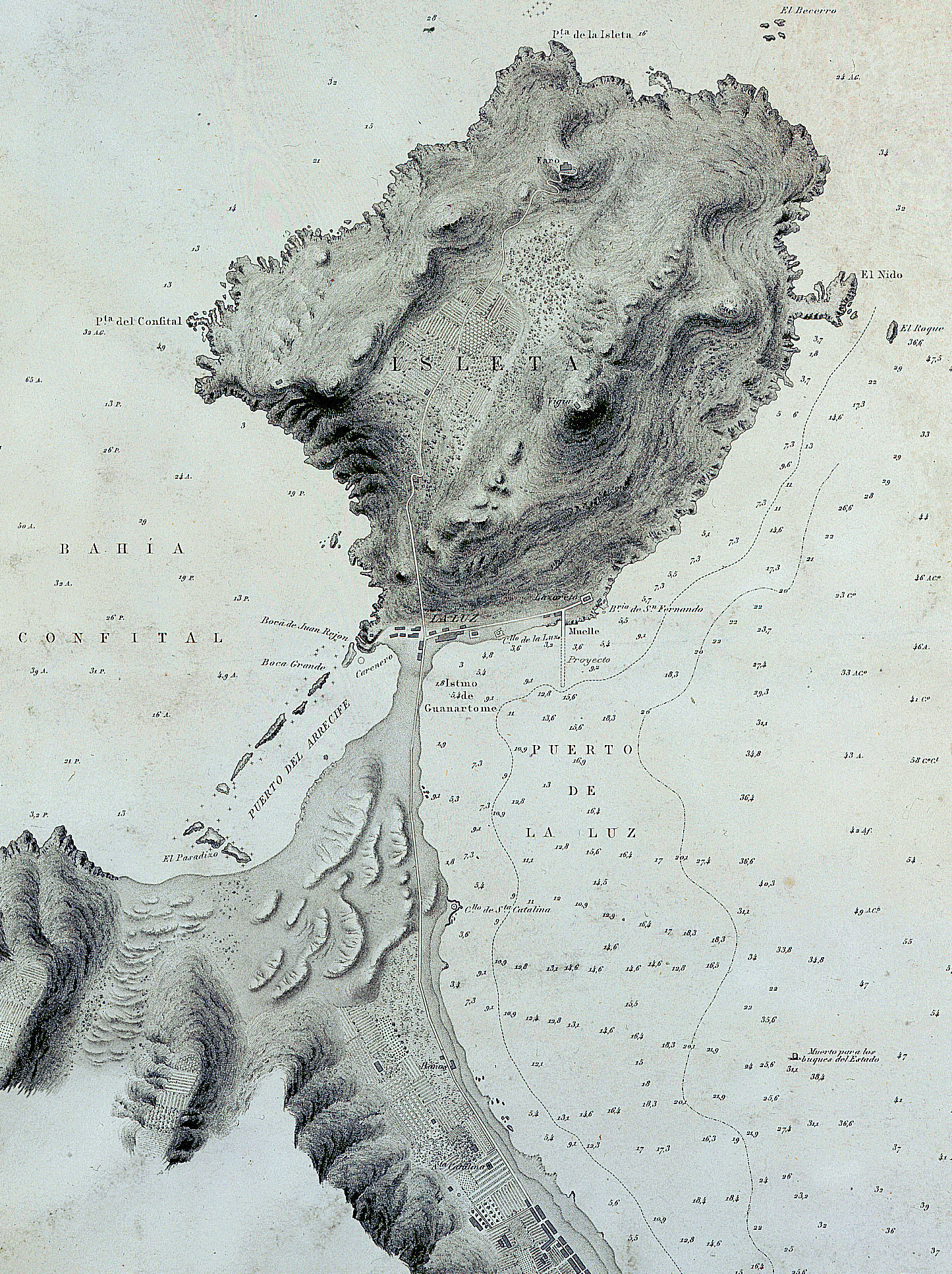 Isleta peninsula, Confital Bay, Guanarteme isthmus, "La Luz" Port, "Santa Catalina" & "La Luz" Castles in Las Palmas de Gran Canaria (Canary Islands, Spain). Map of 1879.